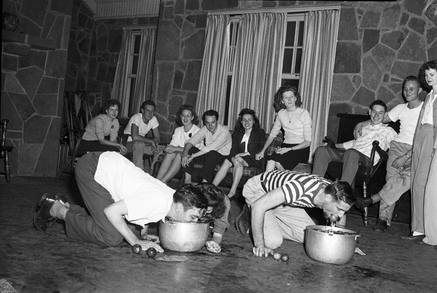 North Texas Agricultural College party with students bobbing for apples.